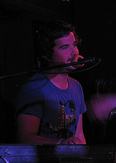 David Nowakowski in Scars on 45 playing at The Saint, Asbury Park, NJ, USA, July 2011.